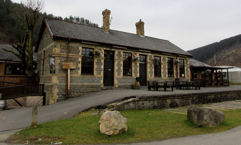 Refreshment Rooms, The Old Station, Cymmer. The former Cymmer Afan railway station has been converted to a pub. The rusty notice on the left shows PASSENGERS ARE REQUESTED TO CROSS THE LINE BY THE BRIDGE. Neither the bridge nor the line are here now.